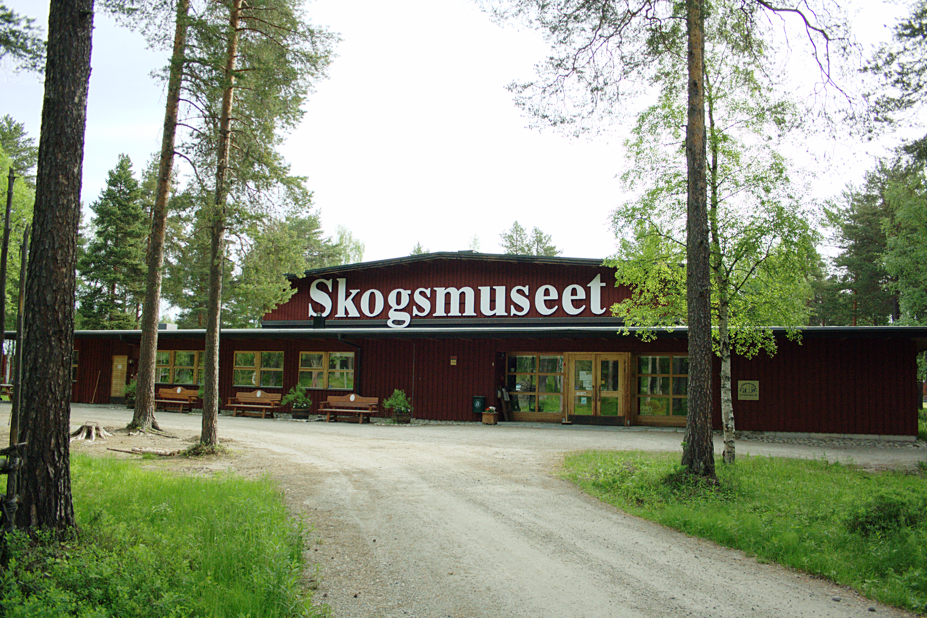 Forestry Museum at the "Old Site" in Lycksele